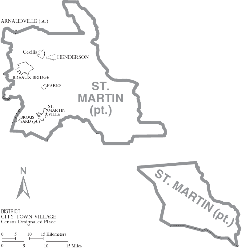 Map of St._Martin Parish, Louisiana, United States with municipal boundaries